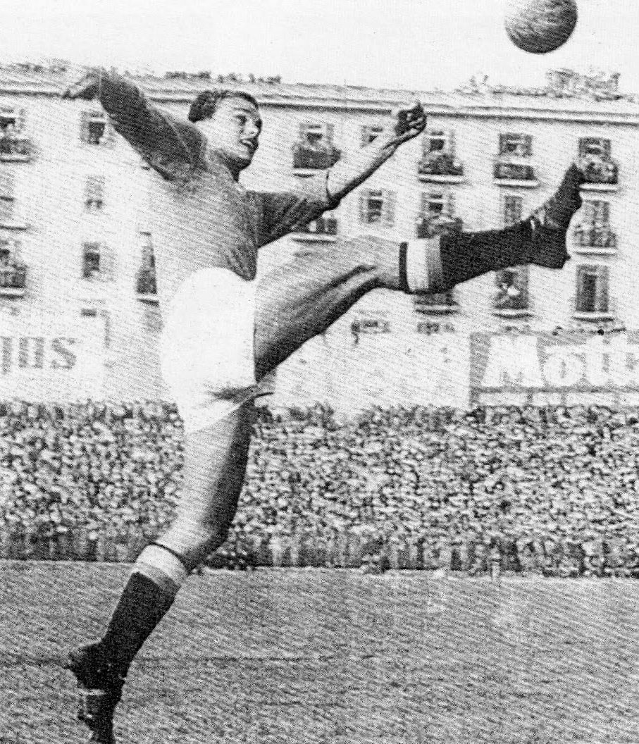 Swedish footballer Hans Olof "Hasse" Jeppson in action with A.C. Napoli in the mid 1950s.